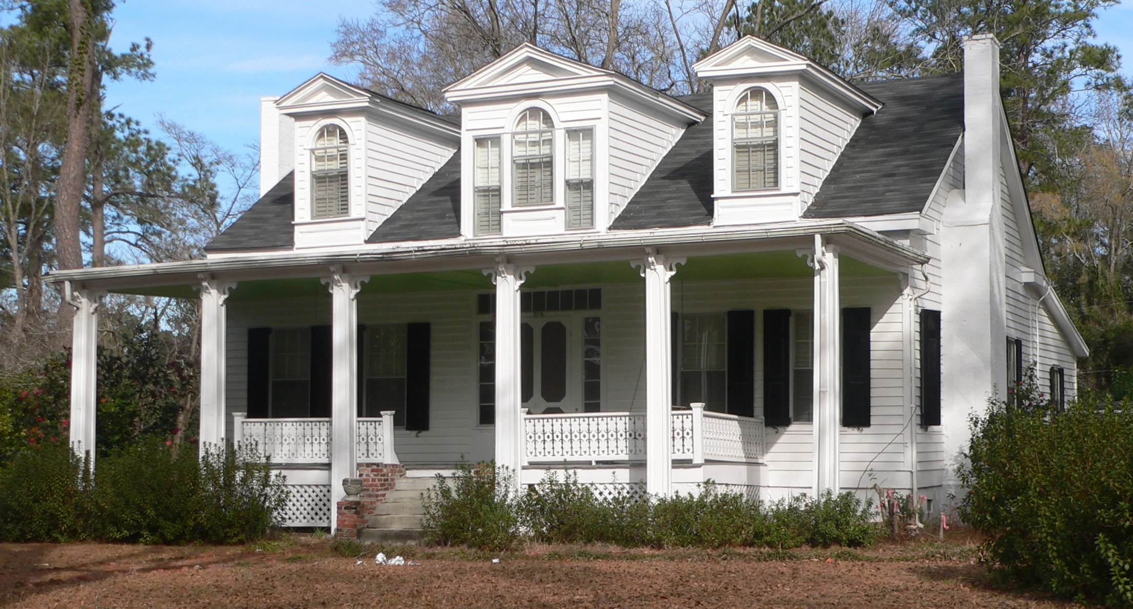 Colonel John Gotea Pressley house, located at 216 North Academy Street in Kingstree, South Carolina.